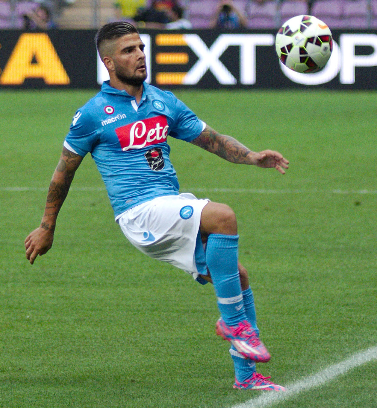 Geneva, August 6, 2014. FC Barcelona v SSC Napoli (0-1), exhibition game. Napoli's forward Lorenzo Insigne in action.